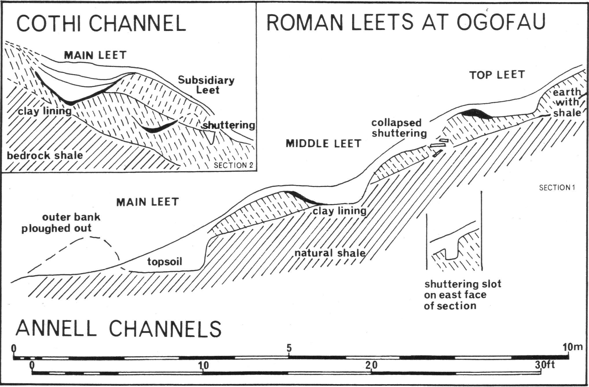 own diagram drawn in 1970 of aqueducts